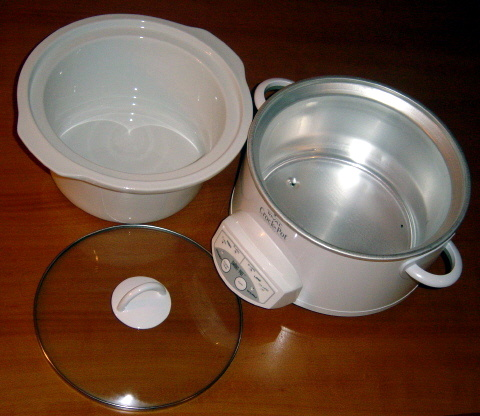 Slow Coooker/ Crock pot's parts This photo depicts the major parts of a crock-pot, namely the heating component, the ceramic pot and a glass lid. This particular crock-pot is made by RIVAL.